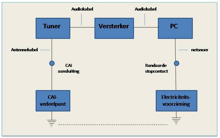 Typical situation in which the so-called "ground loop" appears (diagram in Dutch).